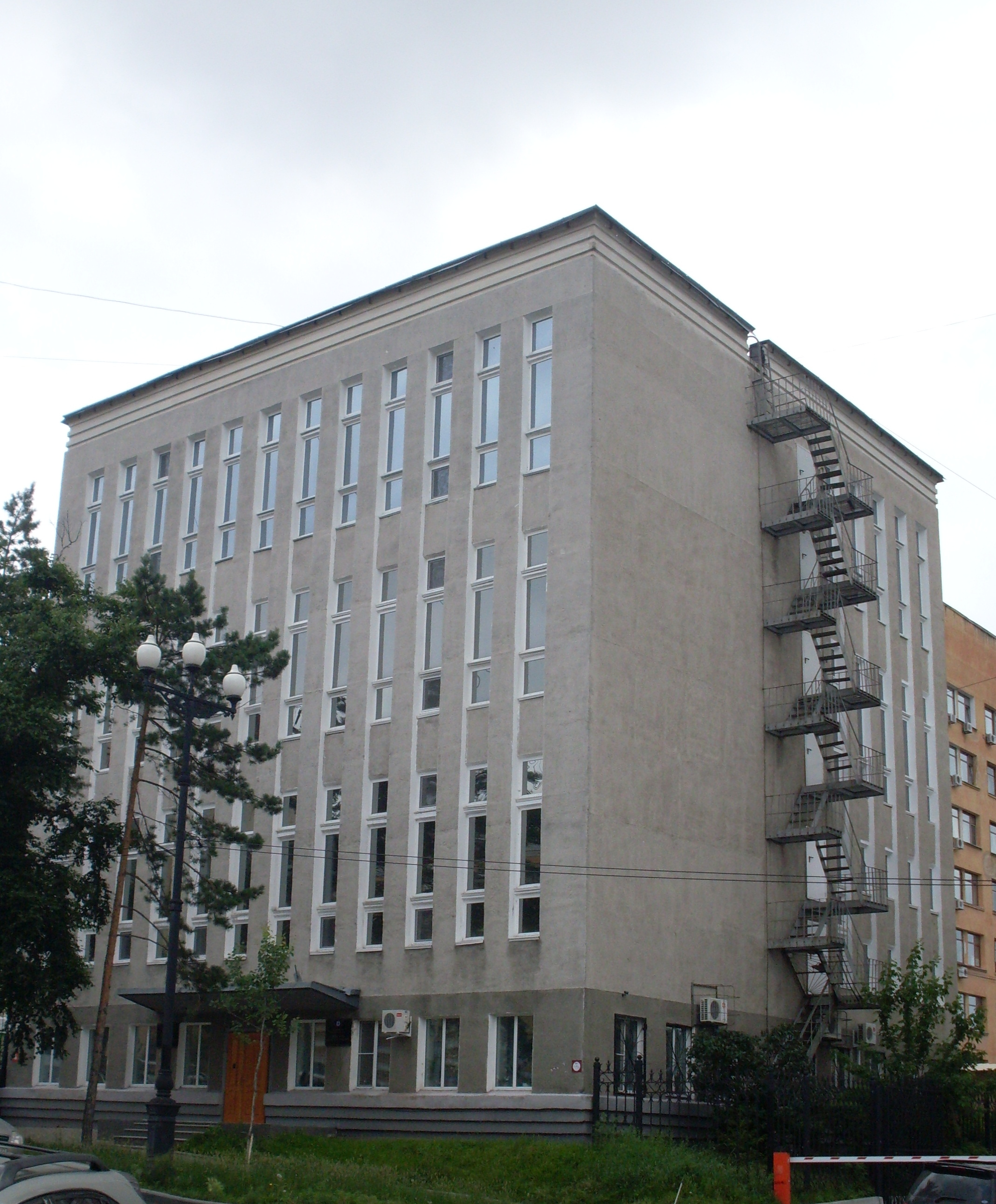 Building an archive of the Khabarovsk Krai (Zaparina str.)